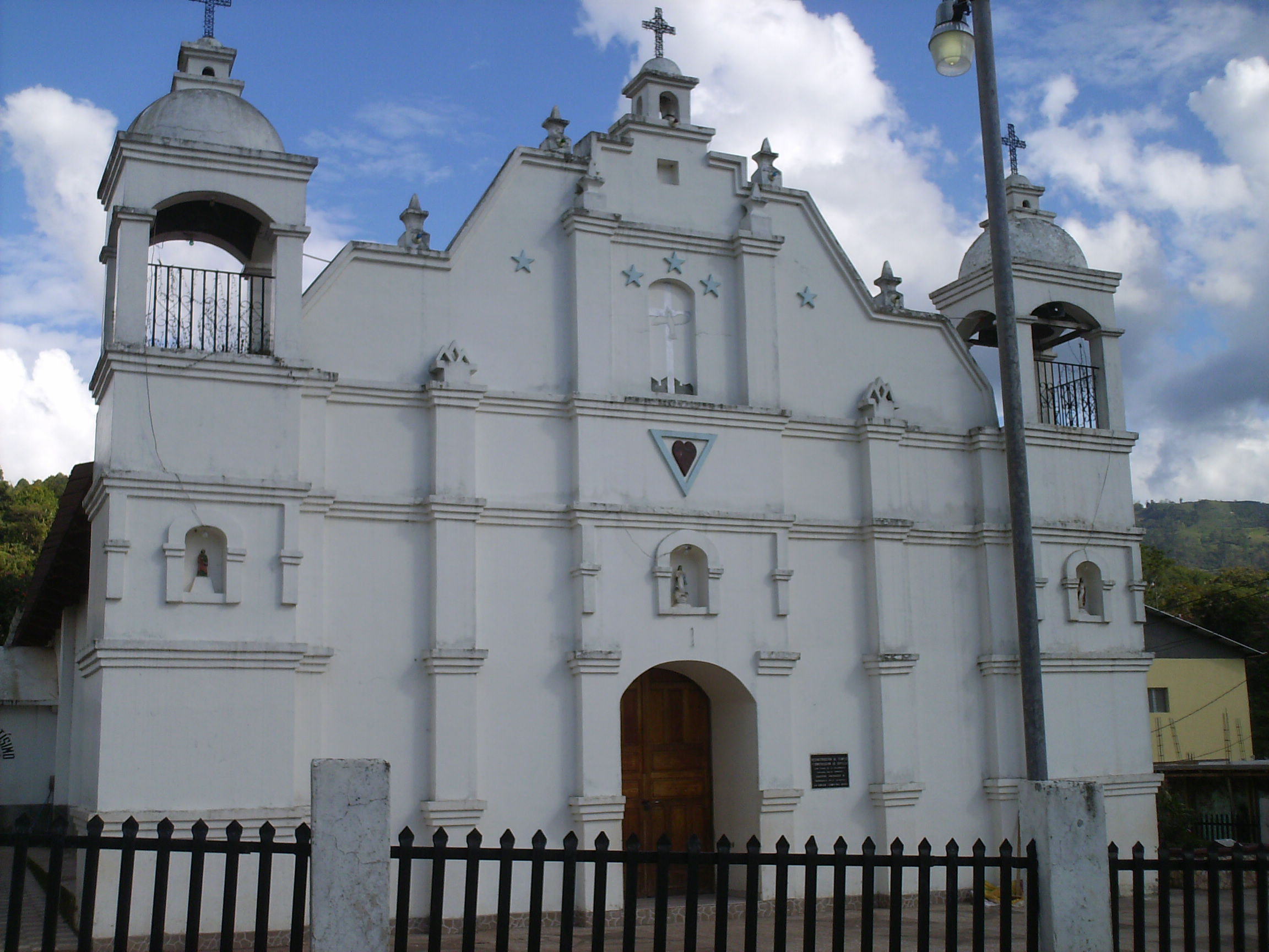 La Unión, municipality in the Honduran department of Lempira.